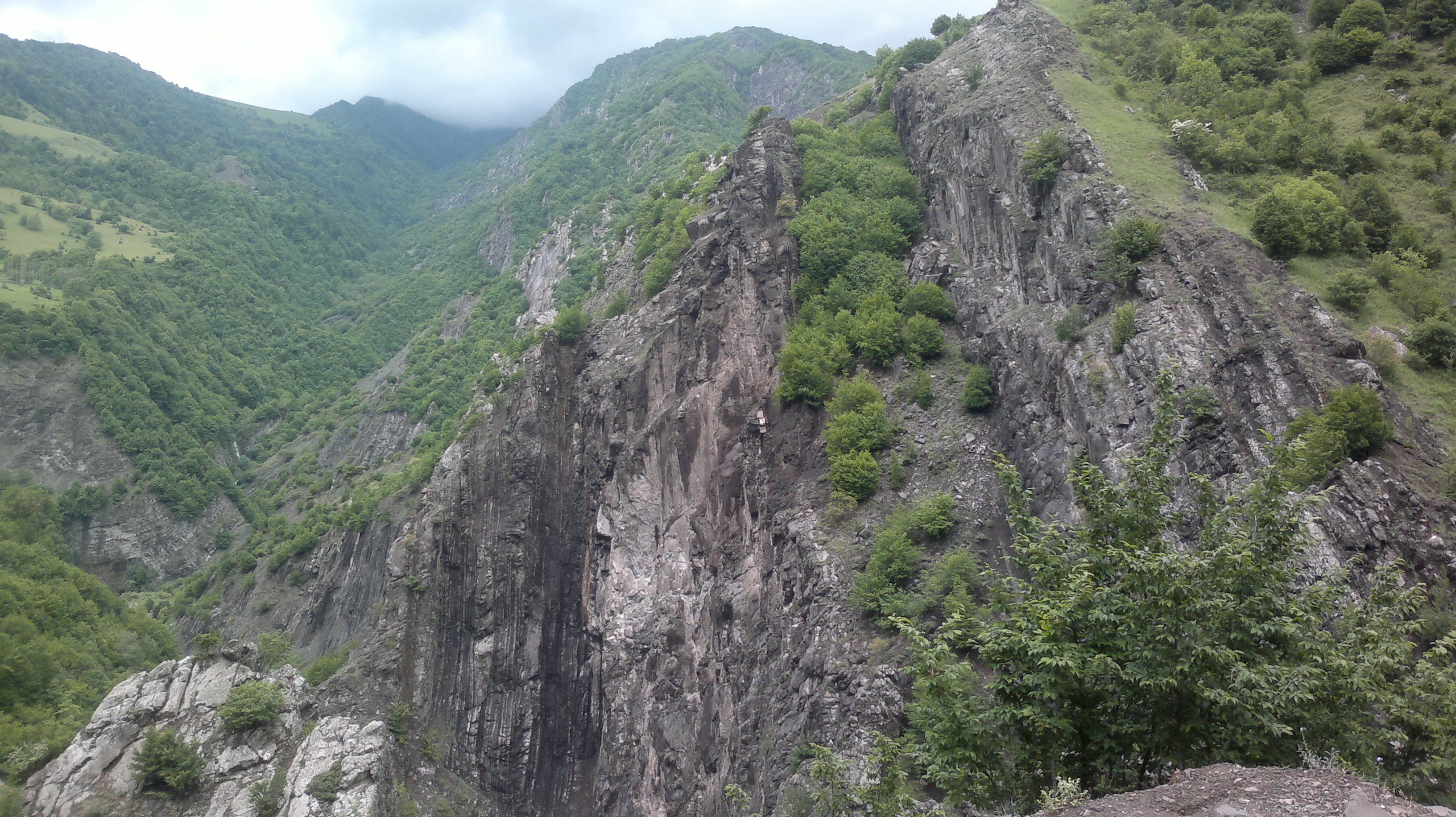 Mezozoic outcrops near Lahij, Azerbaijan.